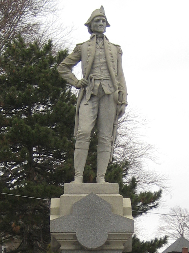 Depicted person: Edward Paine